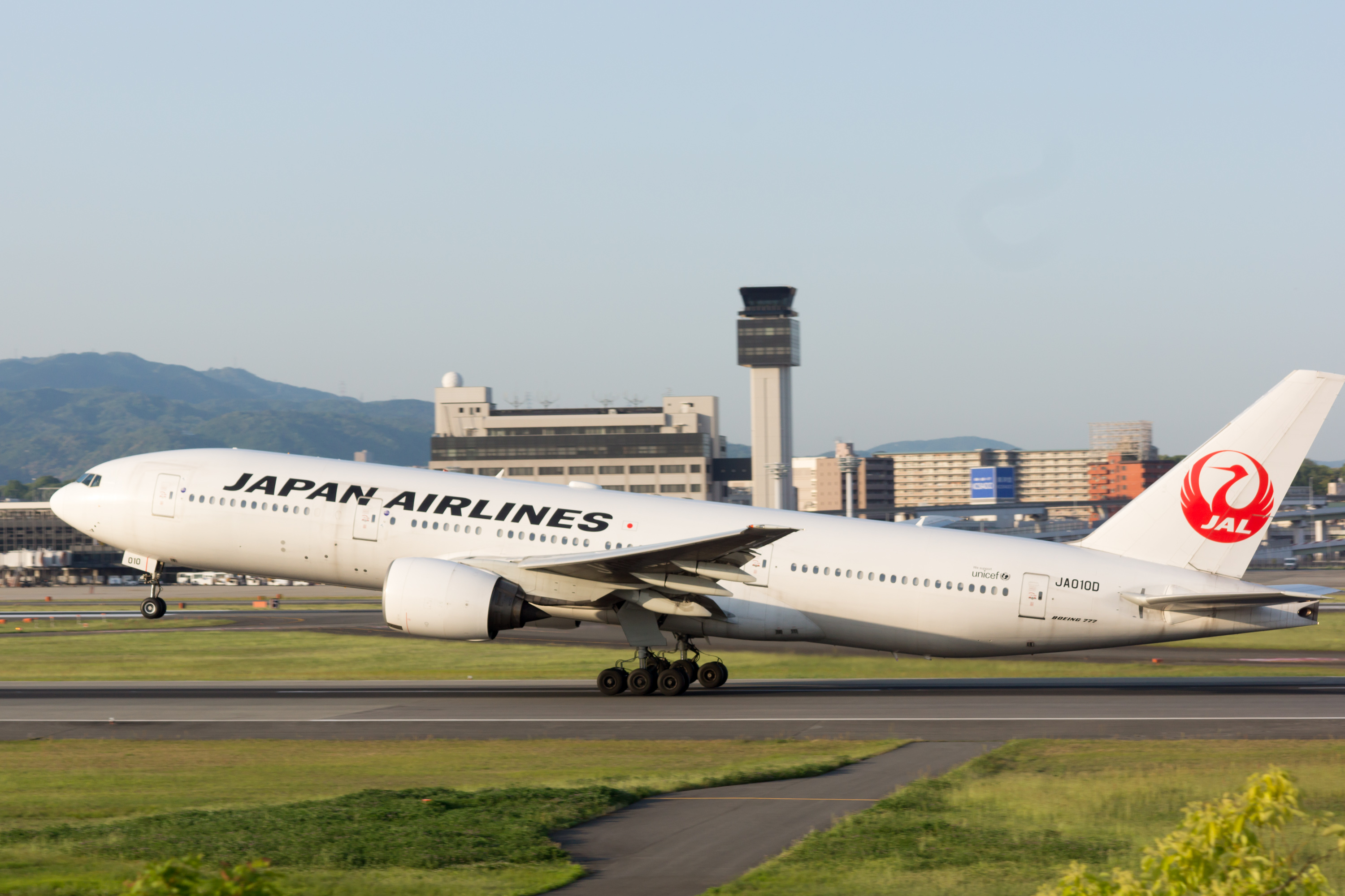 Japan Air Lines / 日本航空 Boeing 777-289 JA010D JL128, Departed to Haneda, Tokyo Osaka Itami Int'l Airport